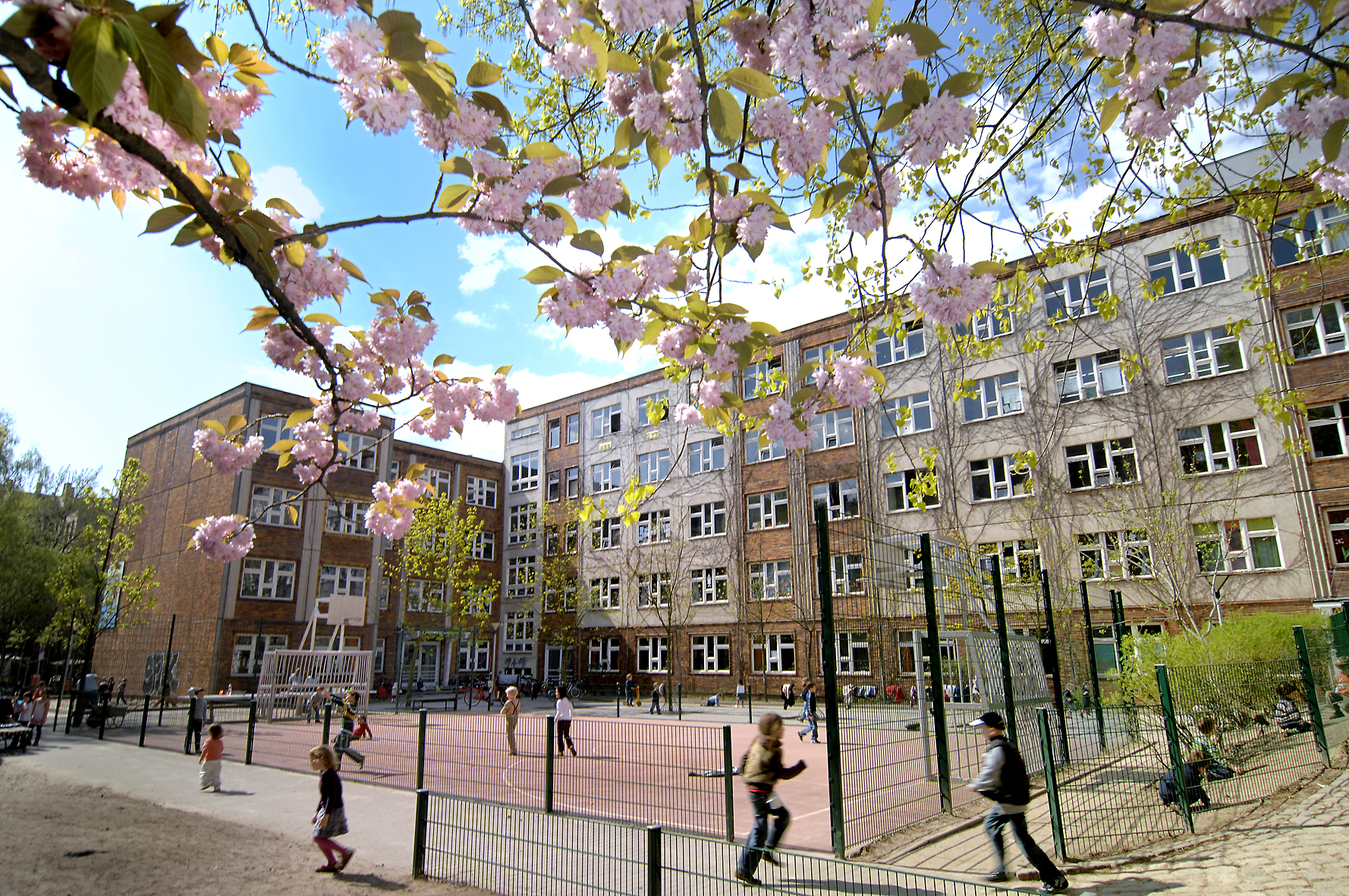 Berlin Metropolitan School